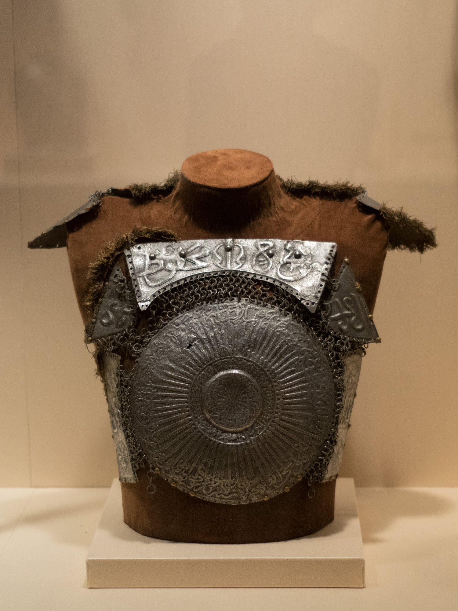 Portions of a cuirass. Bequest of George C. Stone, 1935.